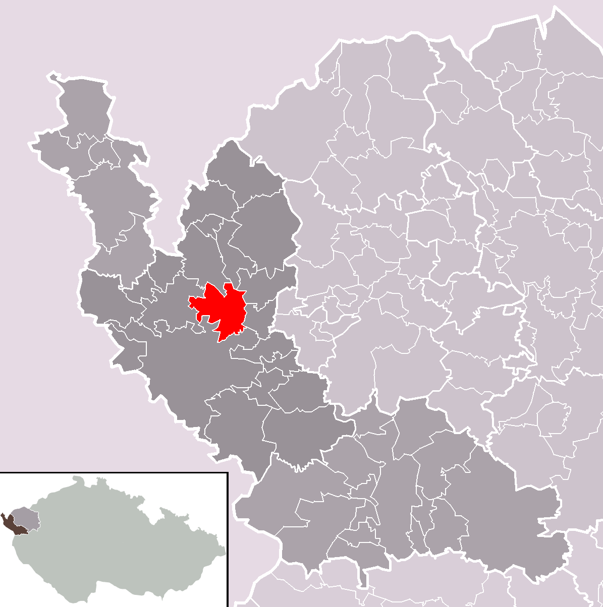 Location of Třebeň municipality within Cheb District and administrative area of Cheb as a Municipality with Extended Competence.